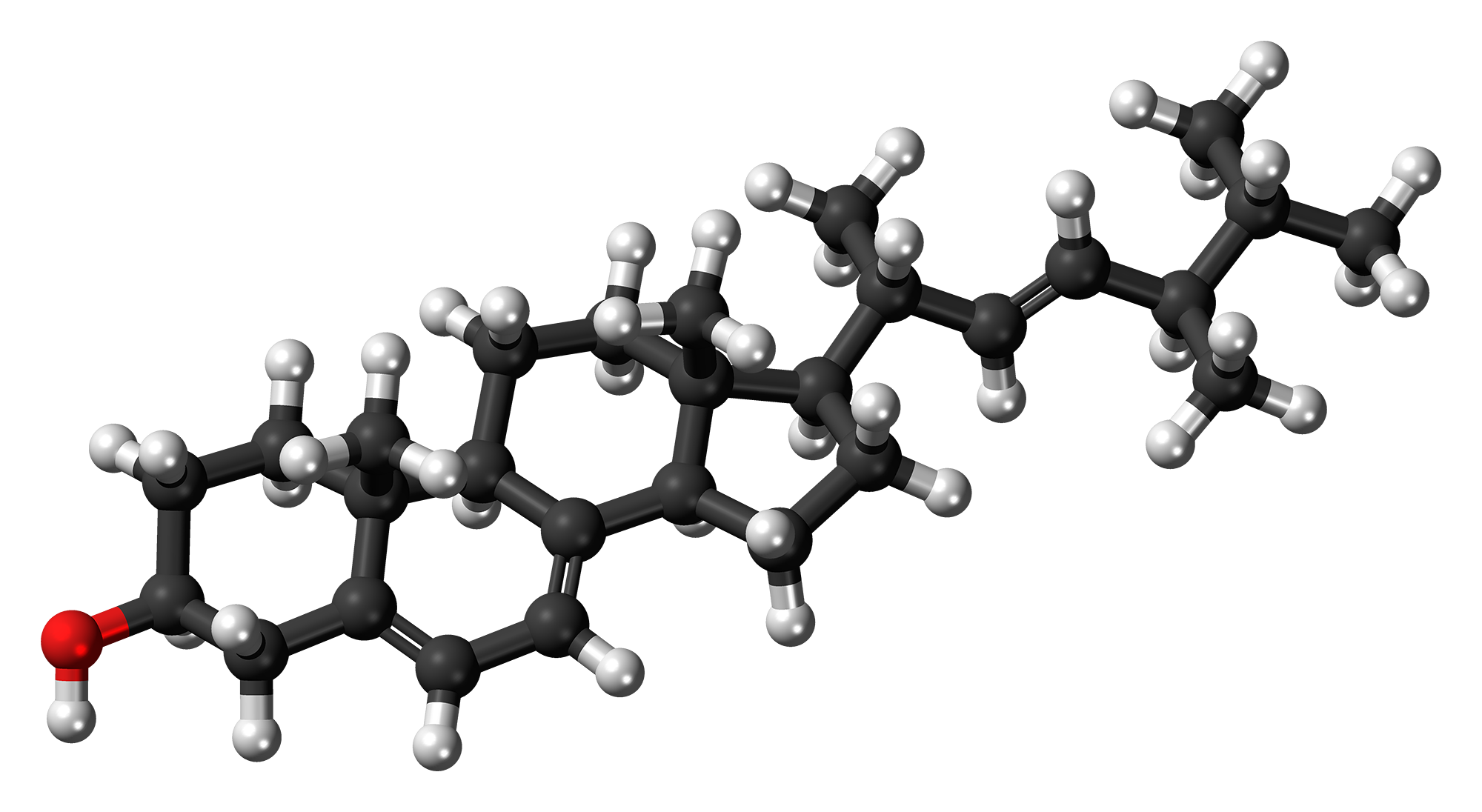 Ball-and-stick model of the ergosterol molecule, a compound found in fungi cell membranes that performs a similar function to cholesterol. Color code: Carbon, C: black Hydrogen, H: white Oxygen, O: red